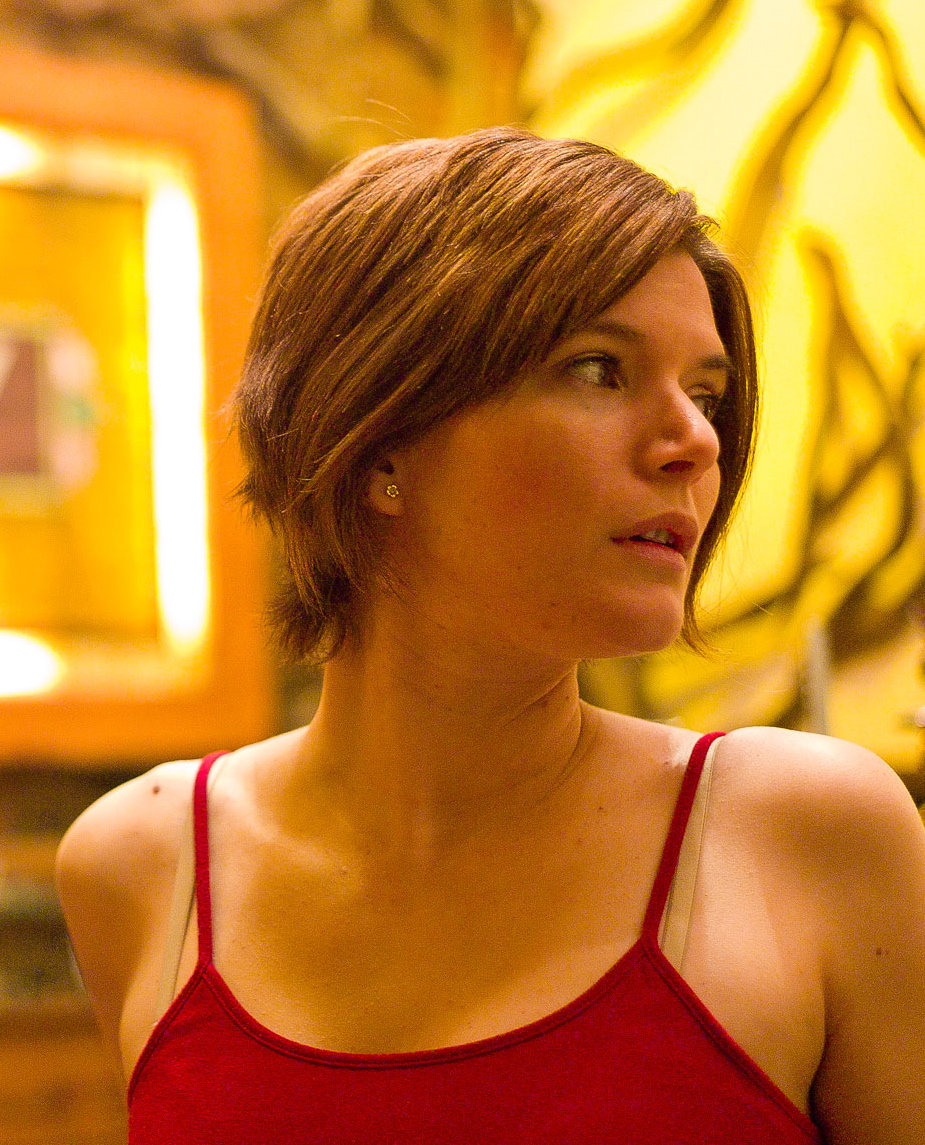 Lauren LoGiudice